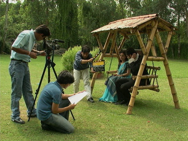 Students of Asian Academy of Film & Television (AAFT) in Film city.